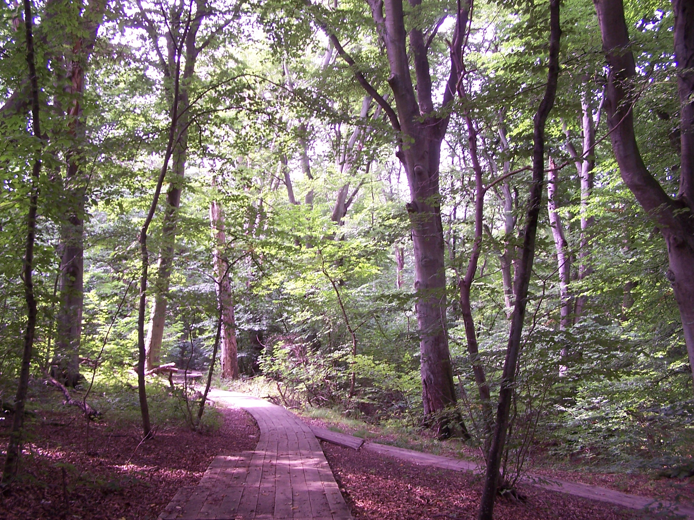 Dalby Söderskog National Park, Lund Municipality, Sweden